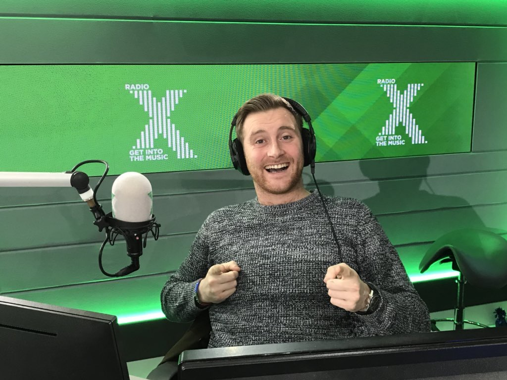 Toby Tarrant, standing in for Chris Moyles on Radio X